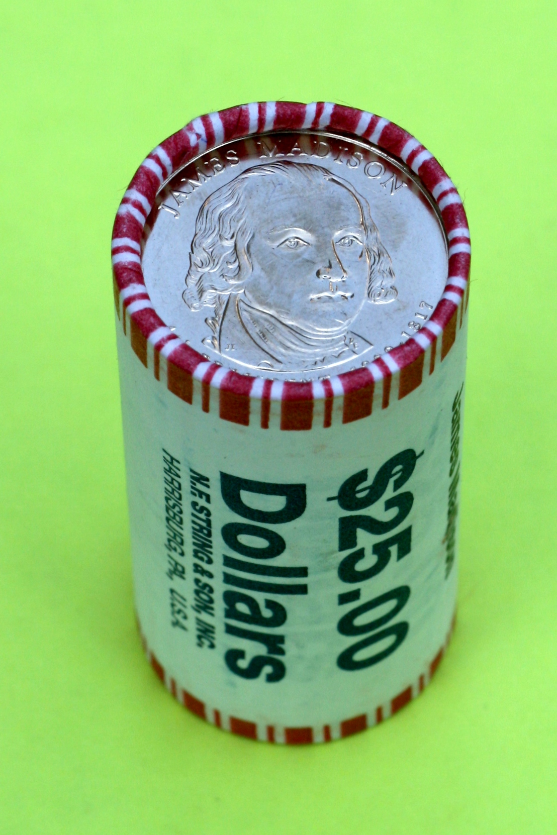 A roll of 25 U.S. dollar coins, featuring the fourth president of the United States, James Madison.